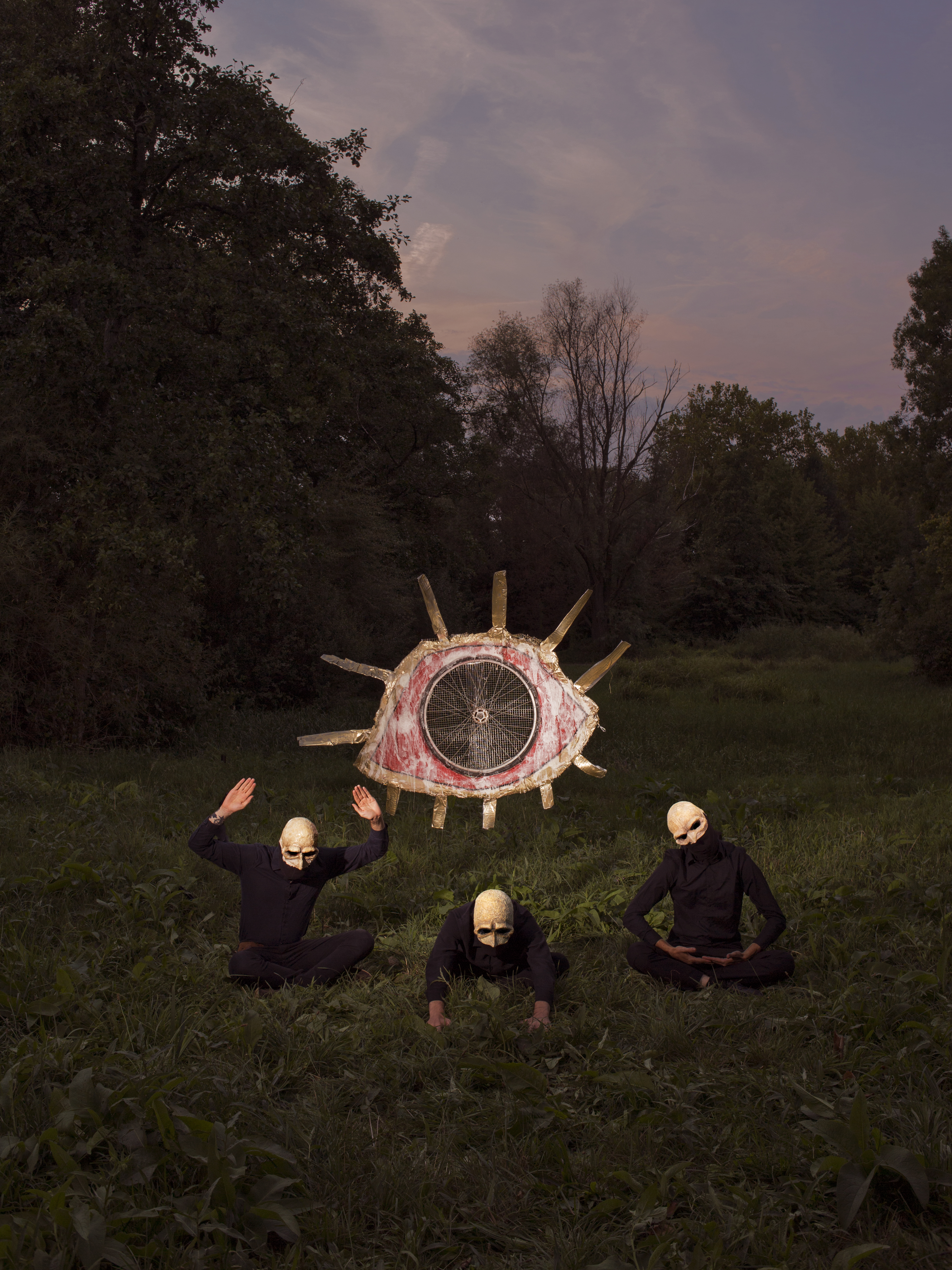 Promo picture of Het Wassen Oog